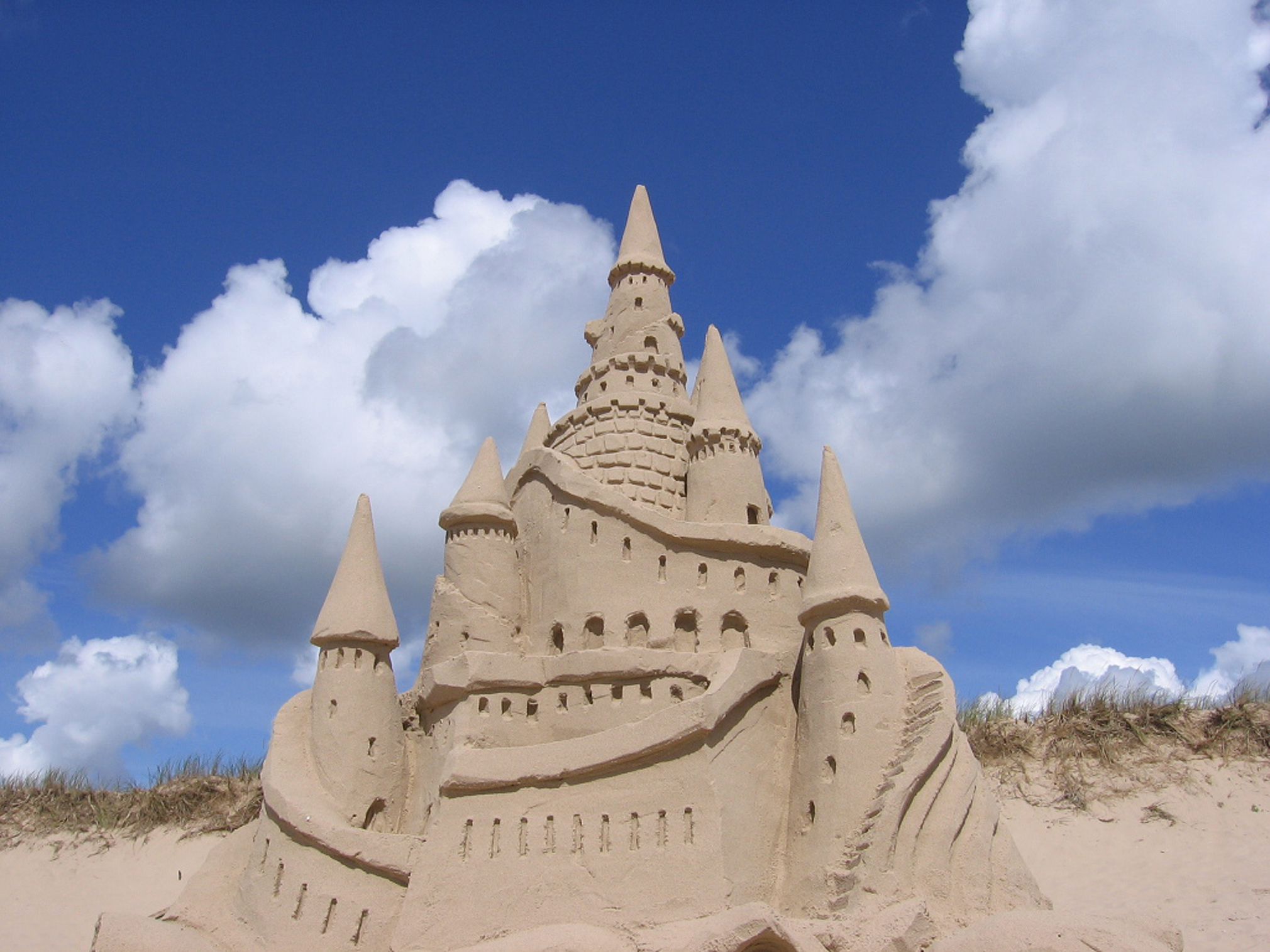 Sand art and play at île du Havre Aubert in Îles-de-la-Madeleine